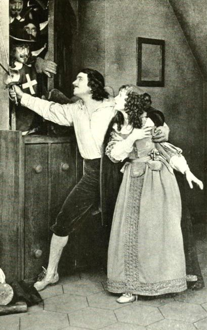 Still from the American film The Three Musketeers (1921) with Douglas Fairbanks and Marguerite De La Motte, on page 85 of Peter Milne, Motion Picture Directing; The Facts and Theories of the Newest Art (1922).